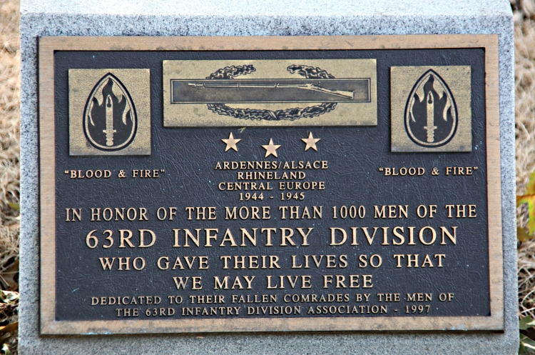 63rd Infantry Division memorial in Arlington National Cemetery in Arlington, Virginia, in the United States. Regulatory changes at the cemetery limited the size, placement, and number of memorials in the late 20th and early 21st centuries. Most new memorials are small plaques placed by military associations and foundations. Placement of the memorial includes a financial donation to help to maintain trees and grounds at the cemetery. As of September 2011, there were more than 140 such miscellaneous memorials in the cemetery. This memorial is in Section 12, placed before a Pin Oak.